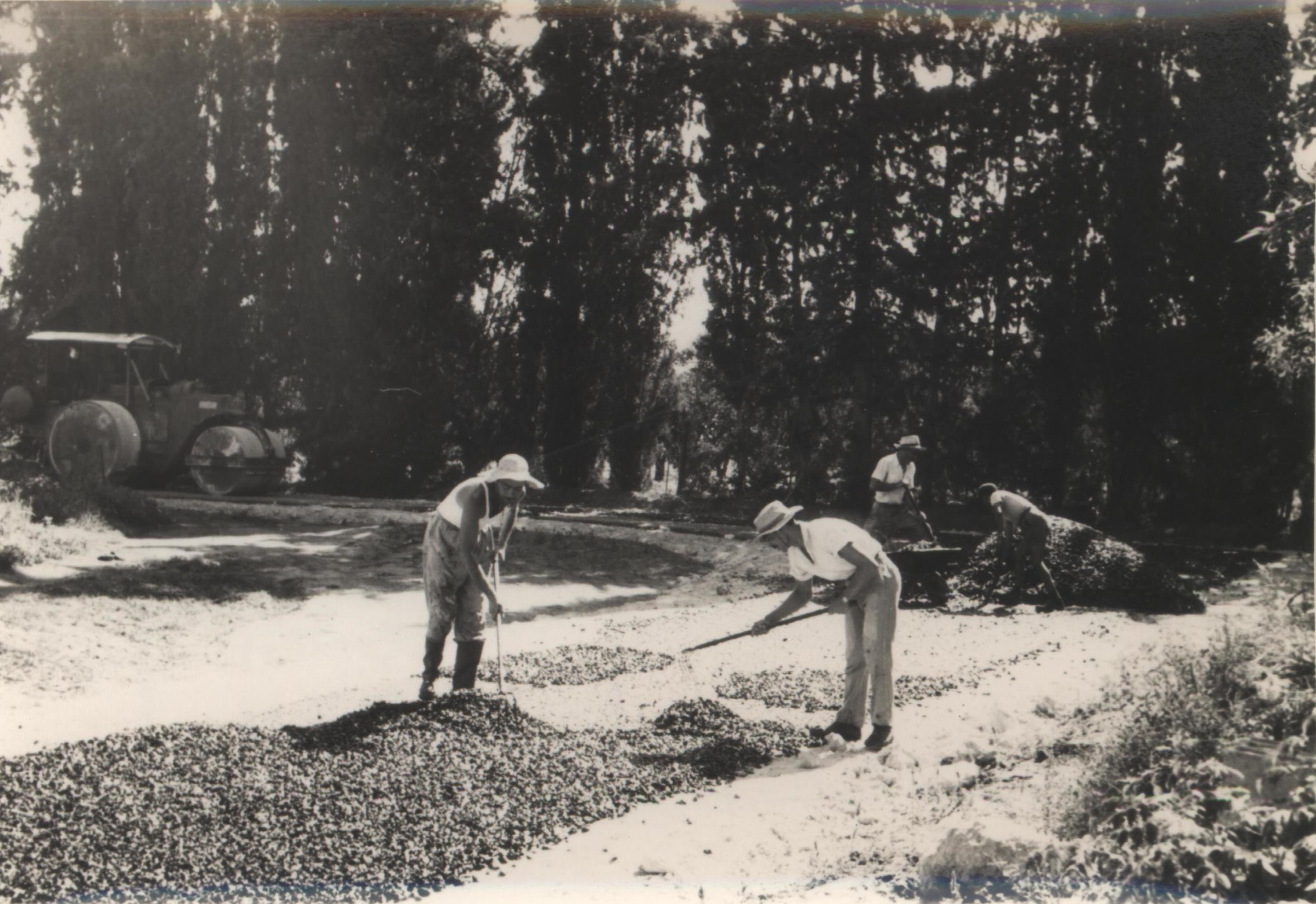 Paving the road in the early 30th . Hod Hasharon